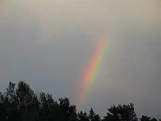 A rainbow photographed in Hamina, Finland on 12 July 2004